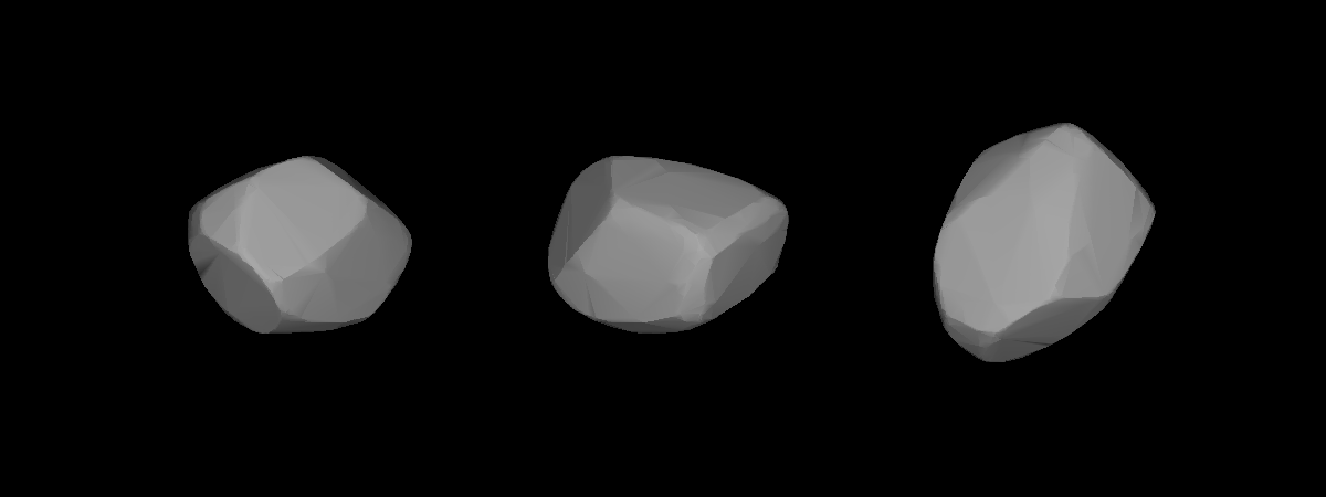 A three-dimensional model of 95 Arethusa that was computed using light curve inversion techniques.